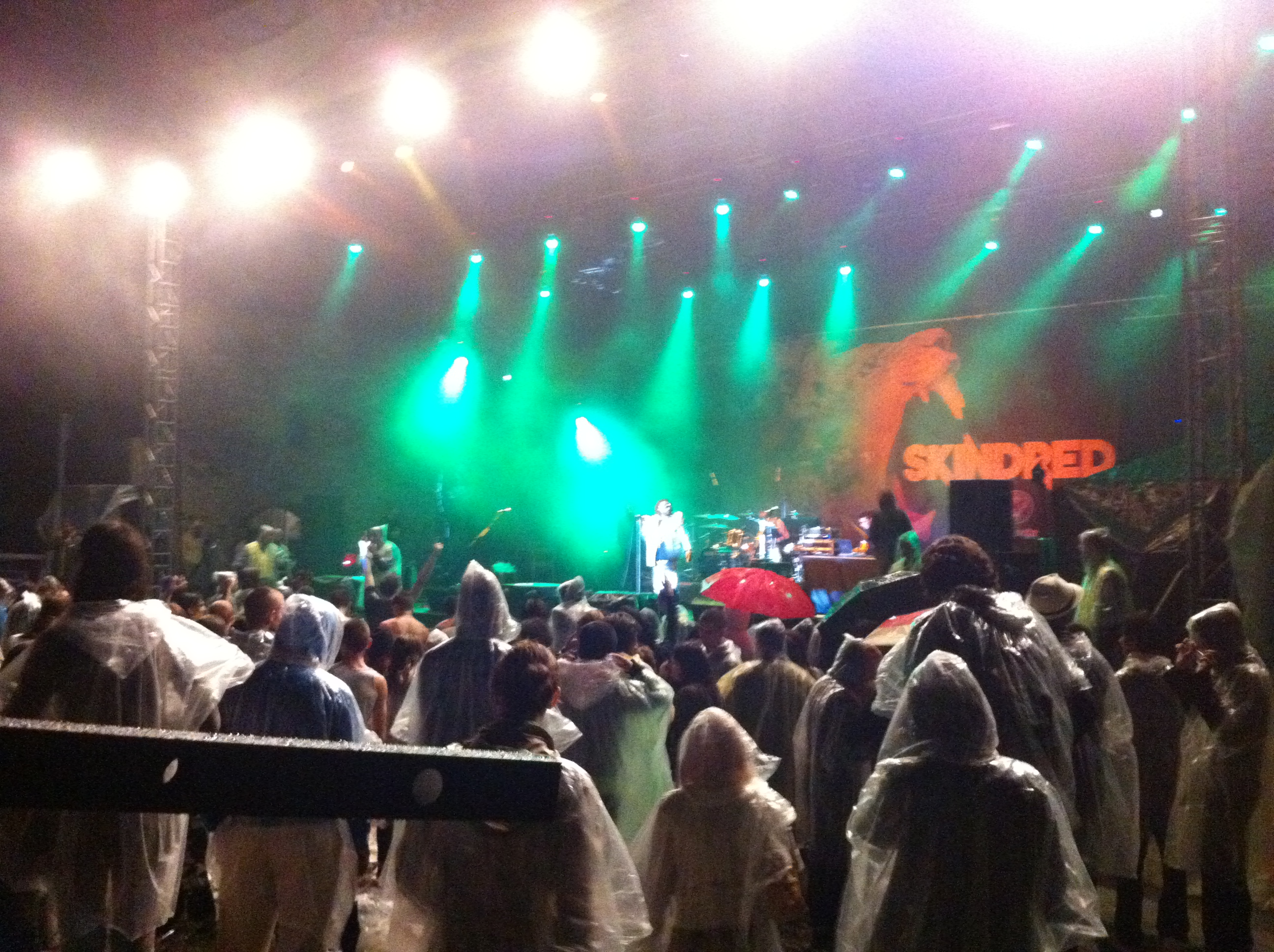 Day 3 - 29 July 2011